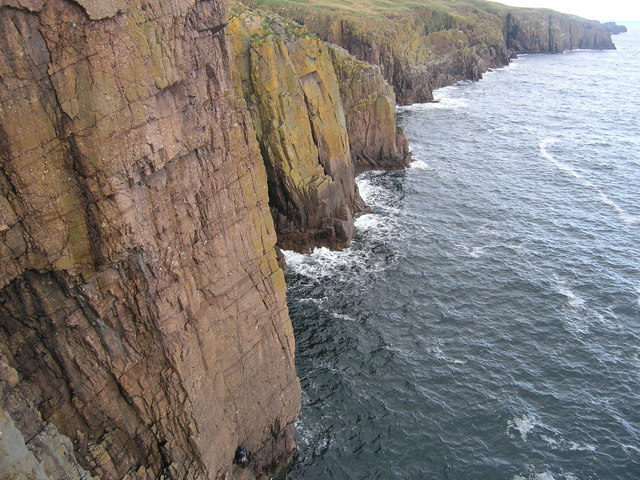 Big Buttress, East Face, Sarclet This buttress has some of the best climbing on the part of the coast. The route Sarclet Pimpernel takes the wall to the left of the arete at a stiff Hard Very Severe and is one of the best single pitch climbs at this grade on a Scottish sea cliff.